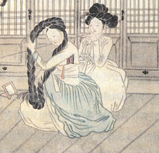 The painting Ginyeo (기녀, 妓女) by Joseon Dynasty painter Yu Un-hong, 1797-1859.